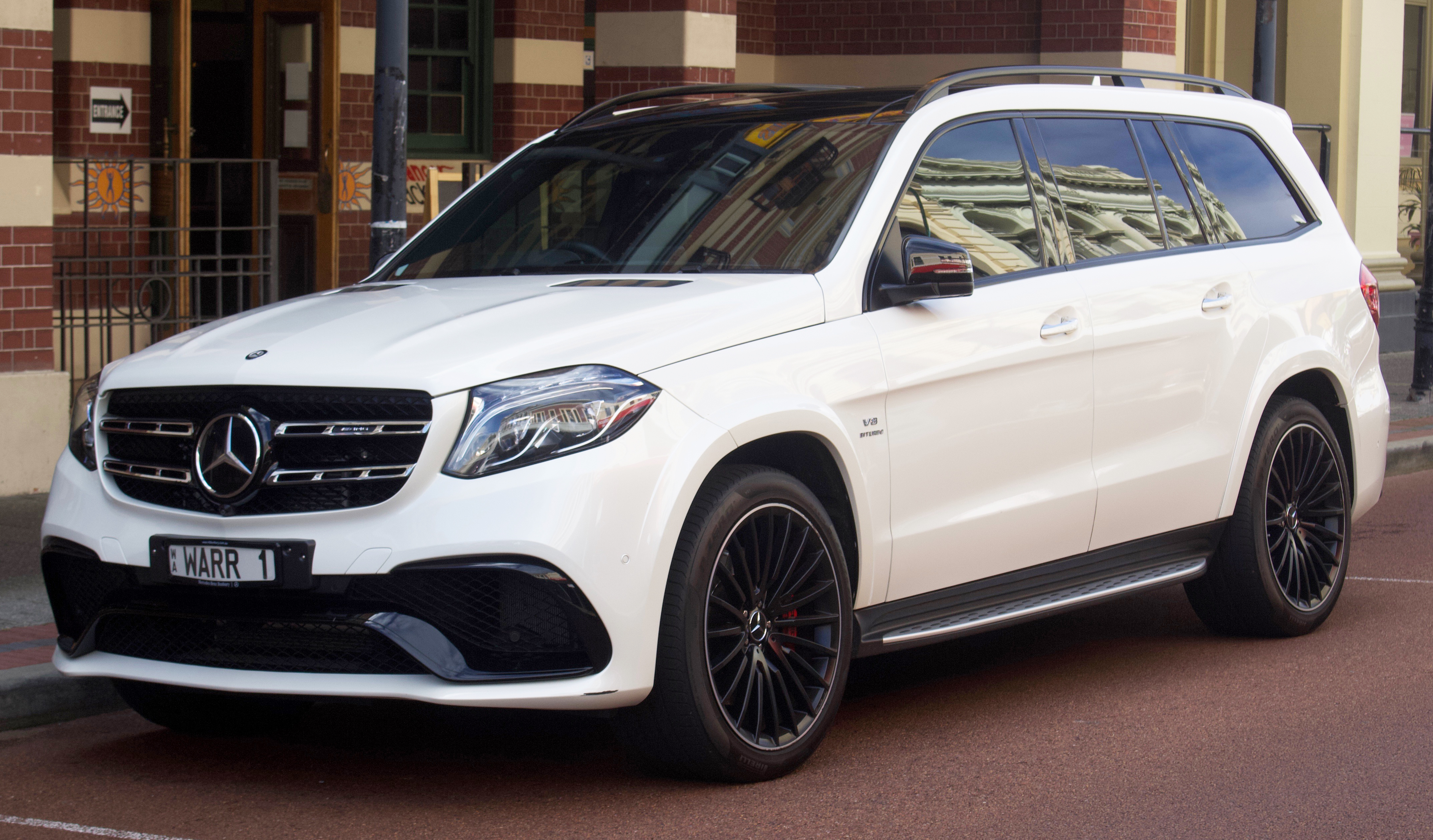 2017 Mercedes-Benz GLS 63 AMG (X 166) wagon. Photographed in Fremantle, Western Australia, Australia.